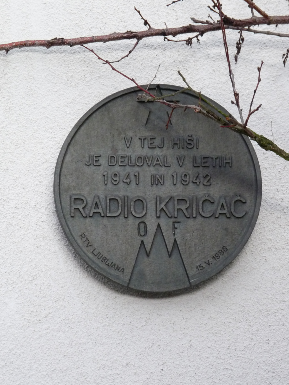 Memorial plaque in Ljubljana, Slovenia, where illegal resistant movement radio station Kričač operated during 1941 and 1942.